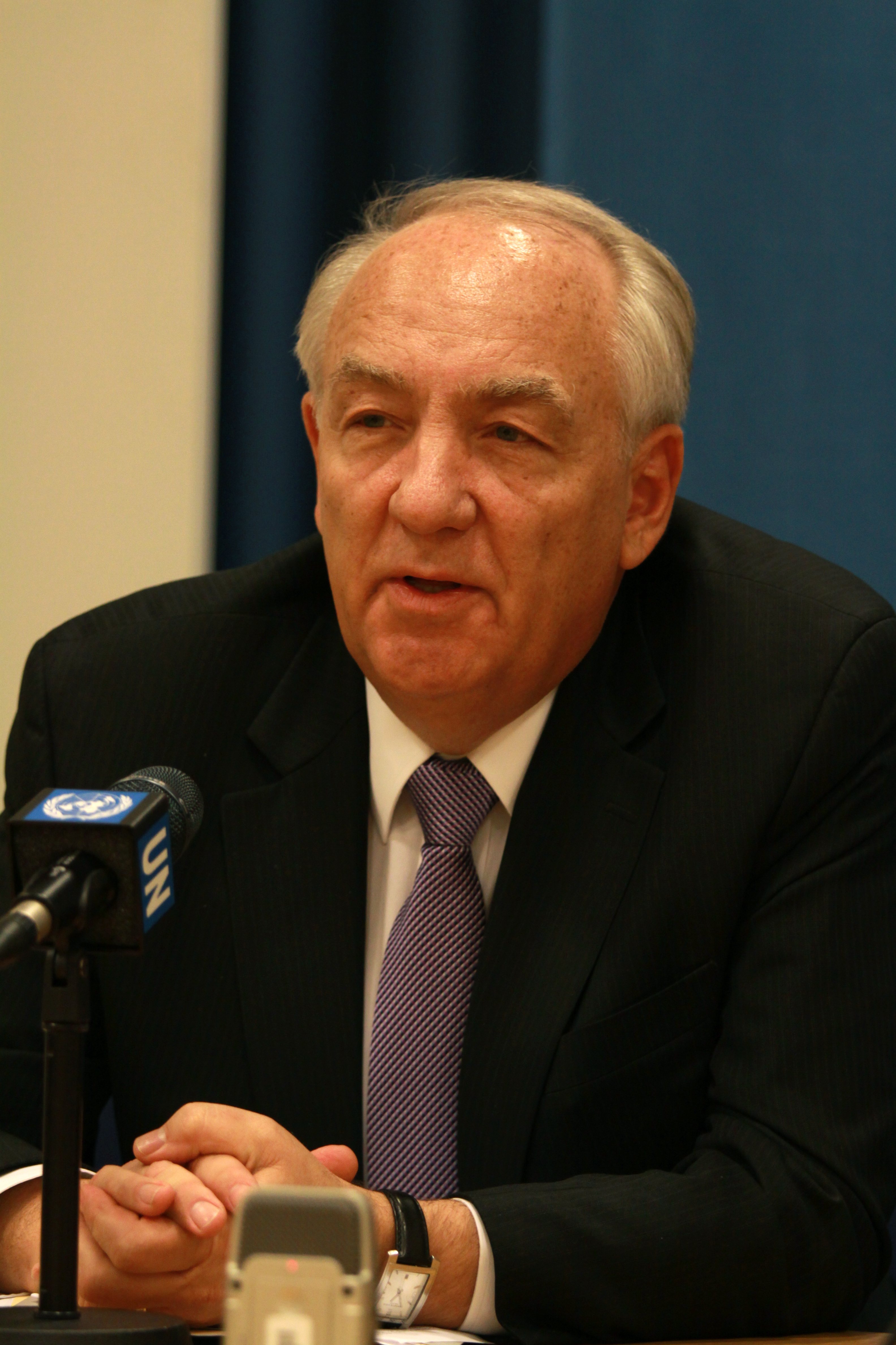 Stephen J. Rapp, Ambassador-at-Large for War Crimes Issues, speaking at a press briefing at the United Nations Office at Geneva. January 22, 2010. U.S. Mission Photo / Eric Bridiers